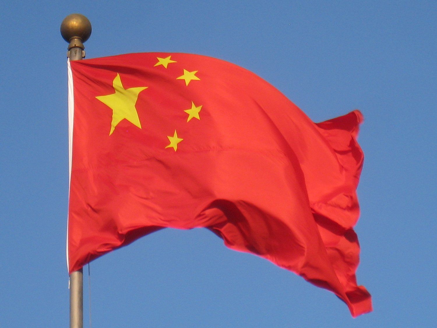 Chinese flag, Beijing, China.